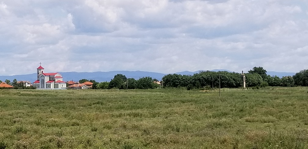 Views of Parchevich neighborhood